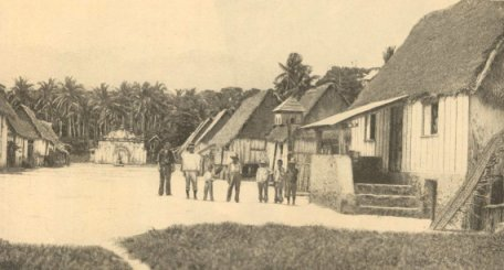 Village of Piti, Guam in 1900. Category:Images of Guam